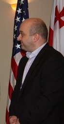 Malkhaz Akishbaia, deputy Minister of Agriculture of Georgia, meeting U.S.Deputy Chief of Mission Kent Logsdon in Tbilisi, 2010. Photo: State Dept